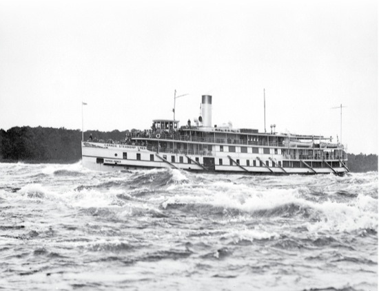 Passenger vessel Rapids Prince transits the Long Sault Rapids, near Cornwall, on the St. Lawrence River.